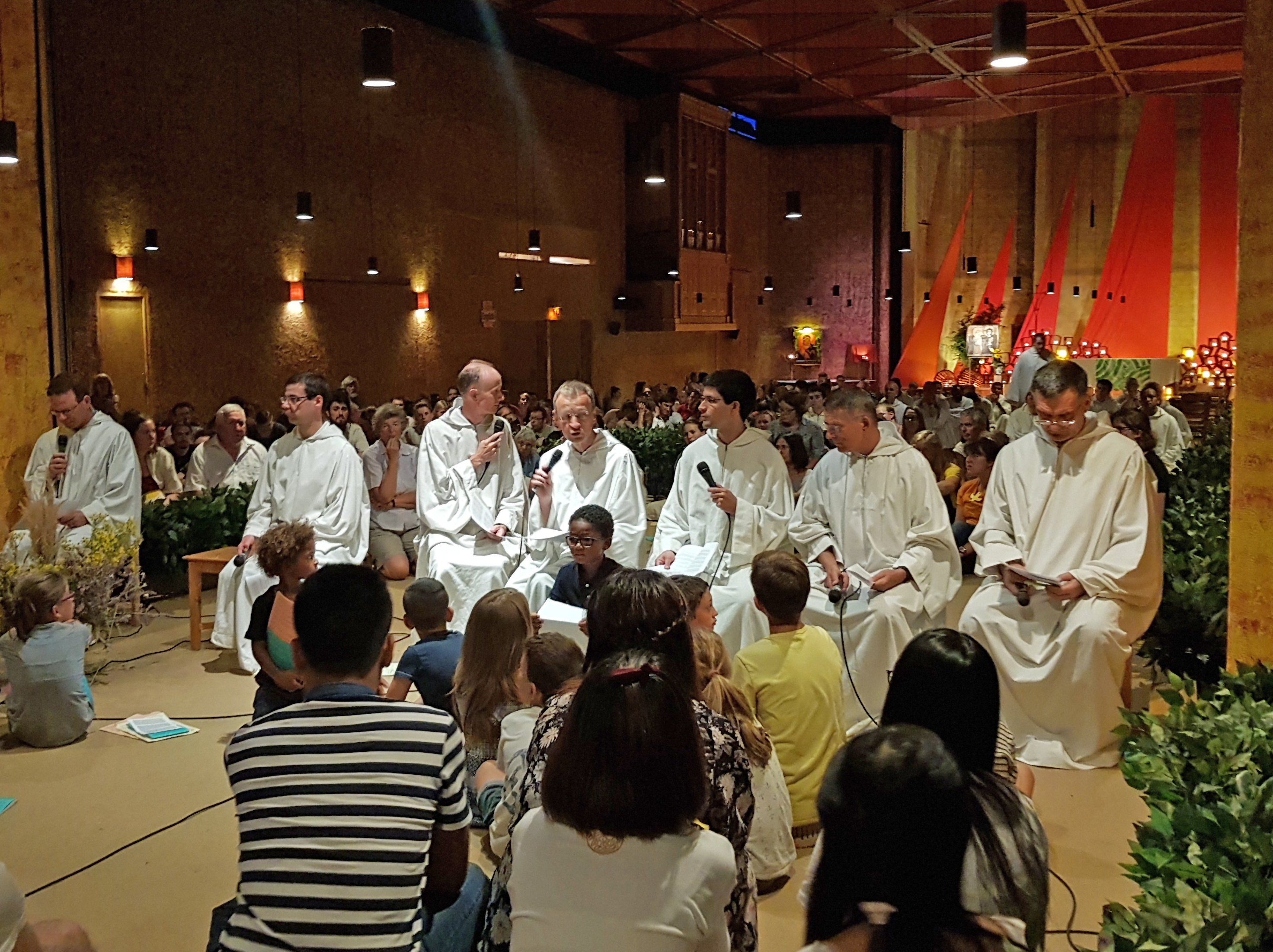 Frère Alois bei seiner Donnerstagabendansprache